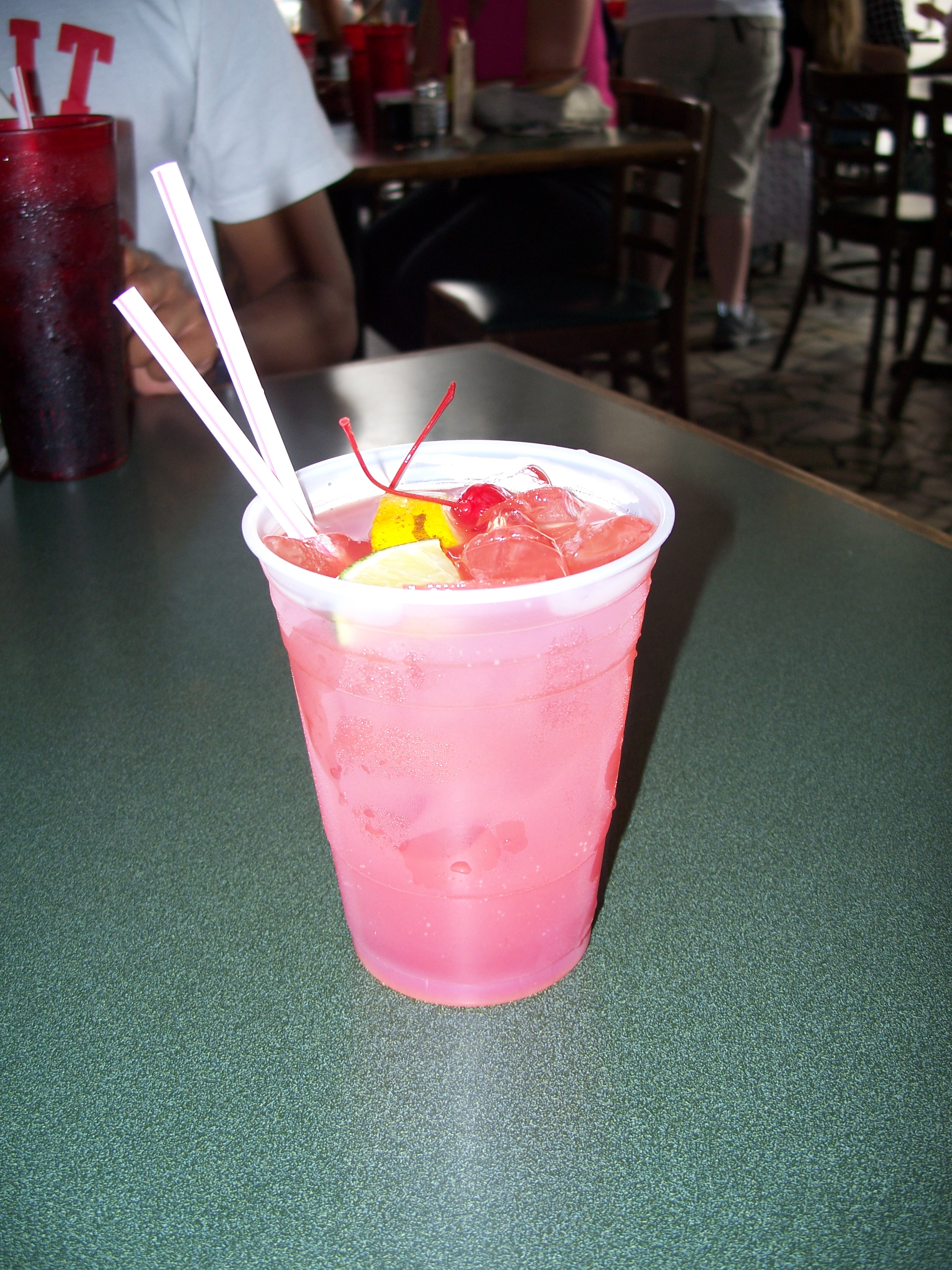 The "good" kind of hurricane.